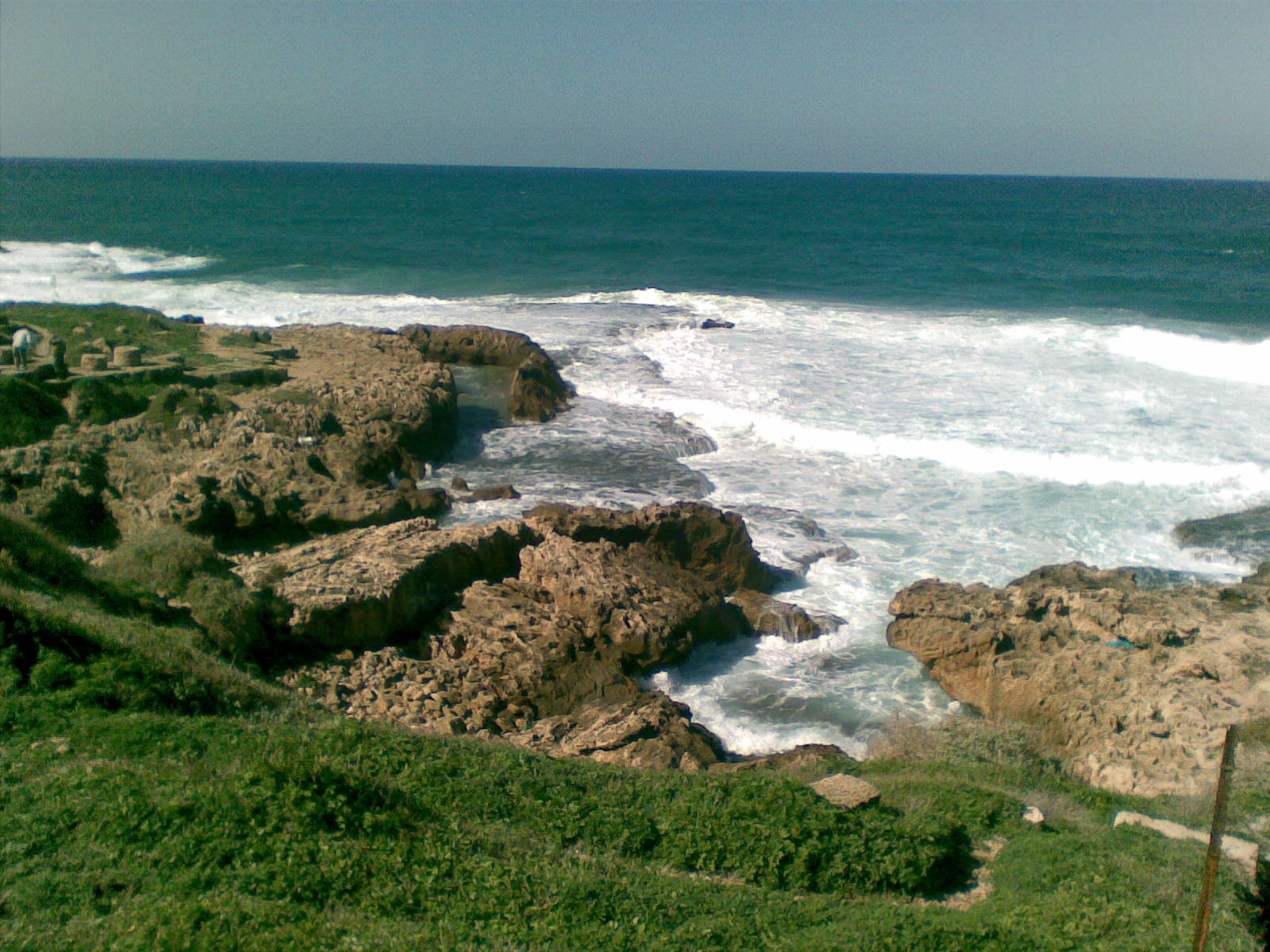 Hakarmel Beach, Geography of Israel